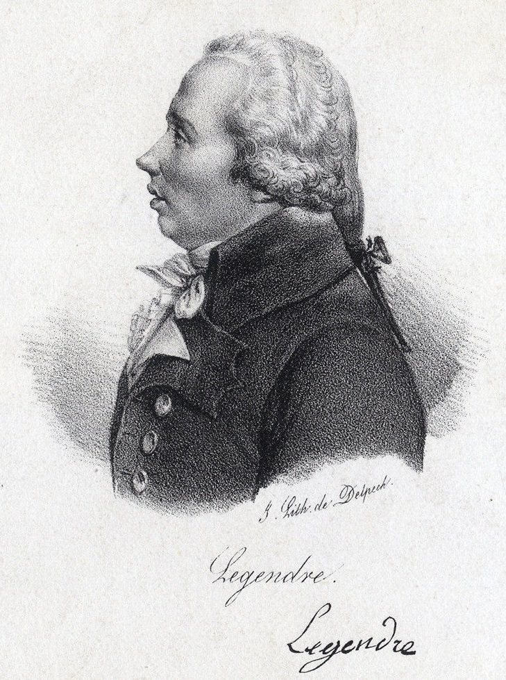 Portrait of Louis Legendre (1752-1797), French revolutionary Portrait formerly identified as Adrien-Marie Legendre (1752-1833)